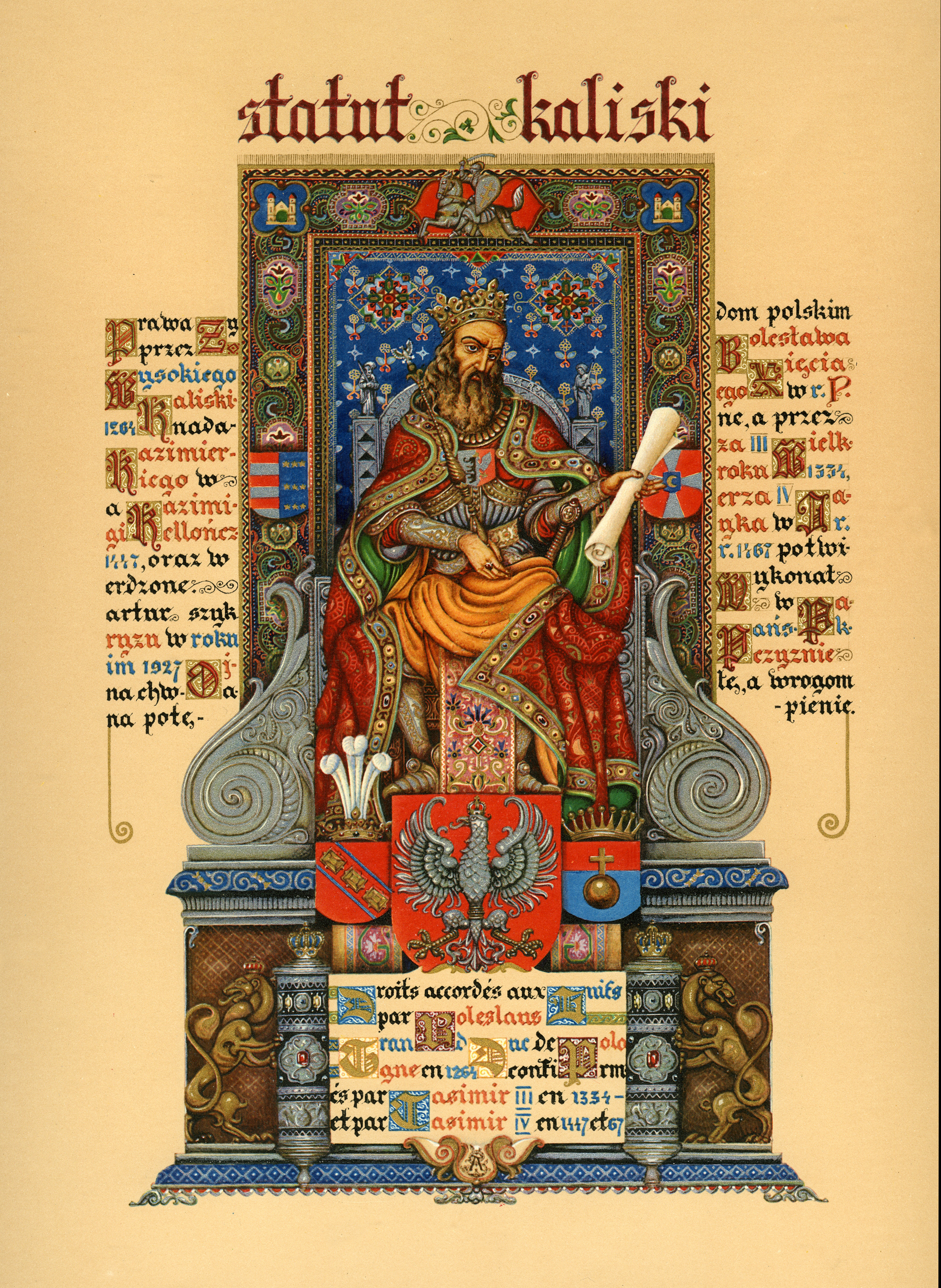 The General Charter of Jewish Liberties, known as the Statute of Kalisz was issued by Boleslaw the Pious, September 8, 1264. The Statute granted wide-ranging and unprecedented legal rights to the Jews of Poland, including freedom of worship, and the right to trade and travel. Arthur Szyk reminded both Poles and Jews in the 20th century of this historic precedent through his seminal work, a visual interpretation of the text Statute of Kalisz (published in 1932), executed in the style of a medieval illuminated manuscript; the 45 paintings were exhibited widely in Poland. This Polish and French title page or frontispiece shows Casimir III the Great enthroned.